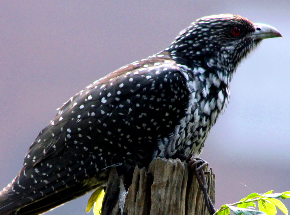 This photo shows a Female Asian Koel (commonly known as "Kokeel" in Bengali), captured from Curzon Hall, University of Dhaka in Bangladesh.